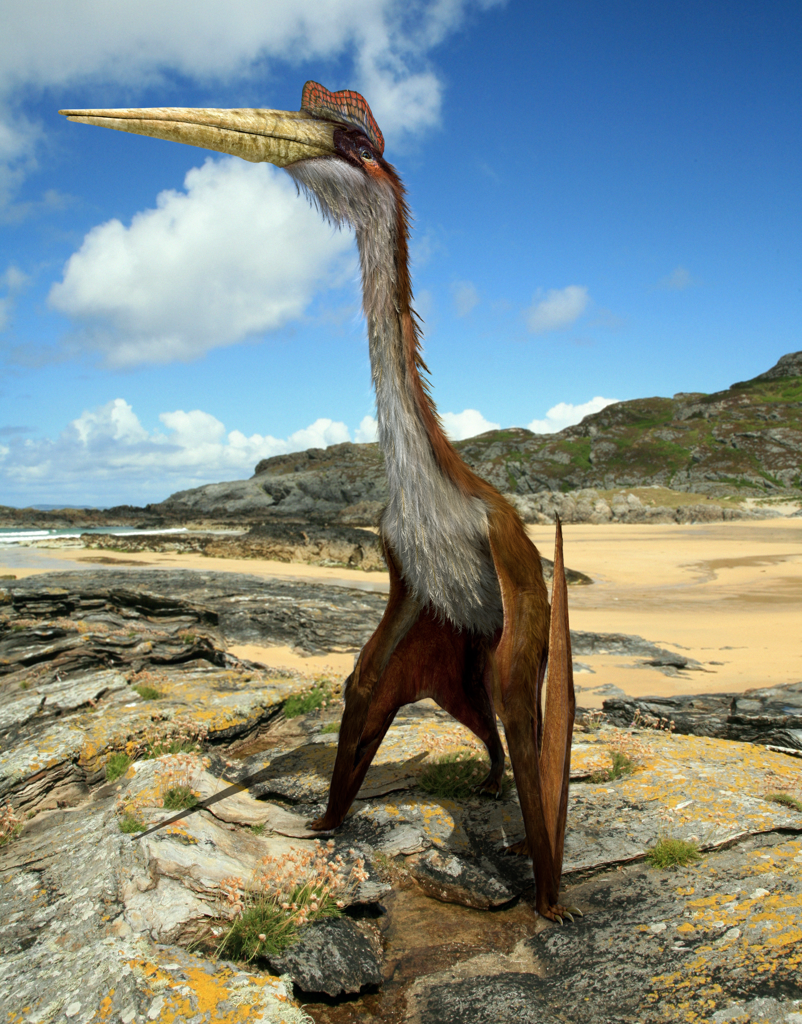 Life restoration of Quetzalcoatlus